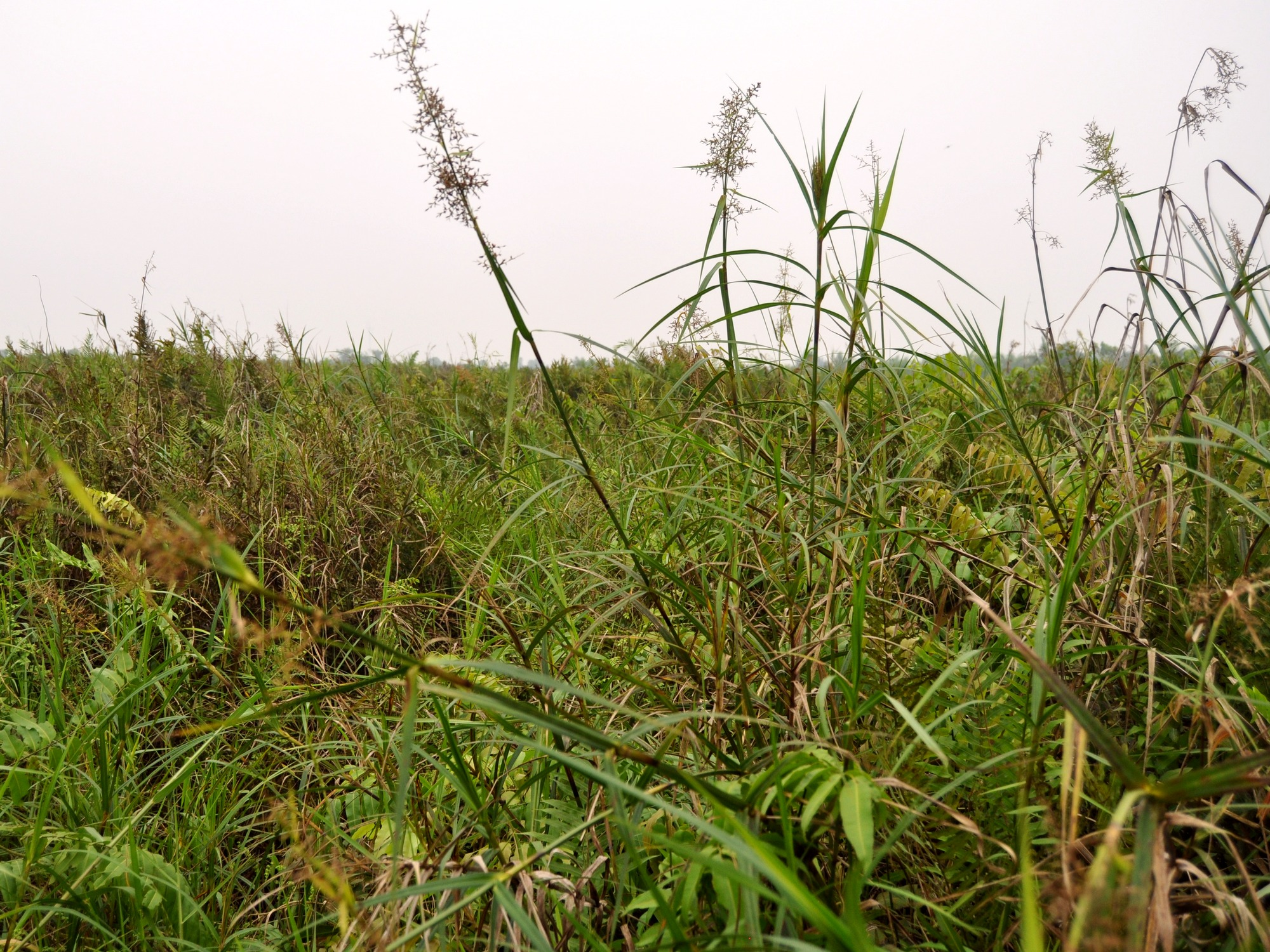 Scleria sumatrensis thickets, at degraded peat swamp. Rokan Hilir, Riau, Indonesia.